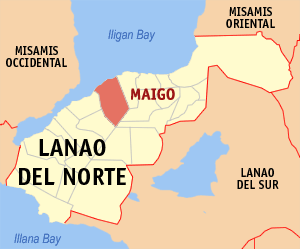 Map of the Lanao del Norte showing the location of Maigo